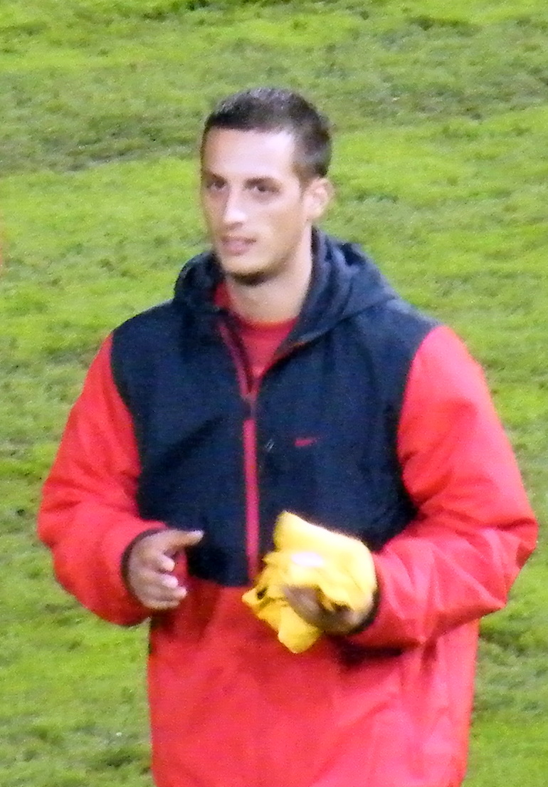 Goran Vujović football player